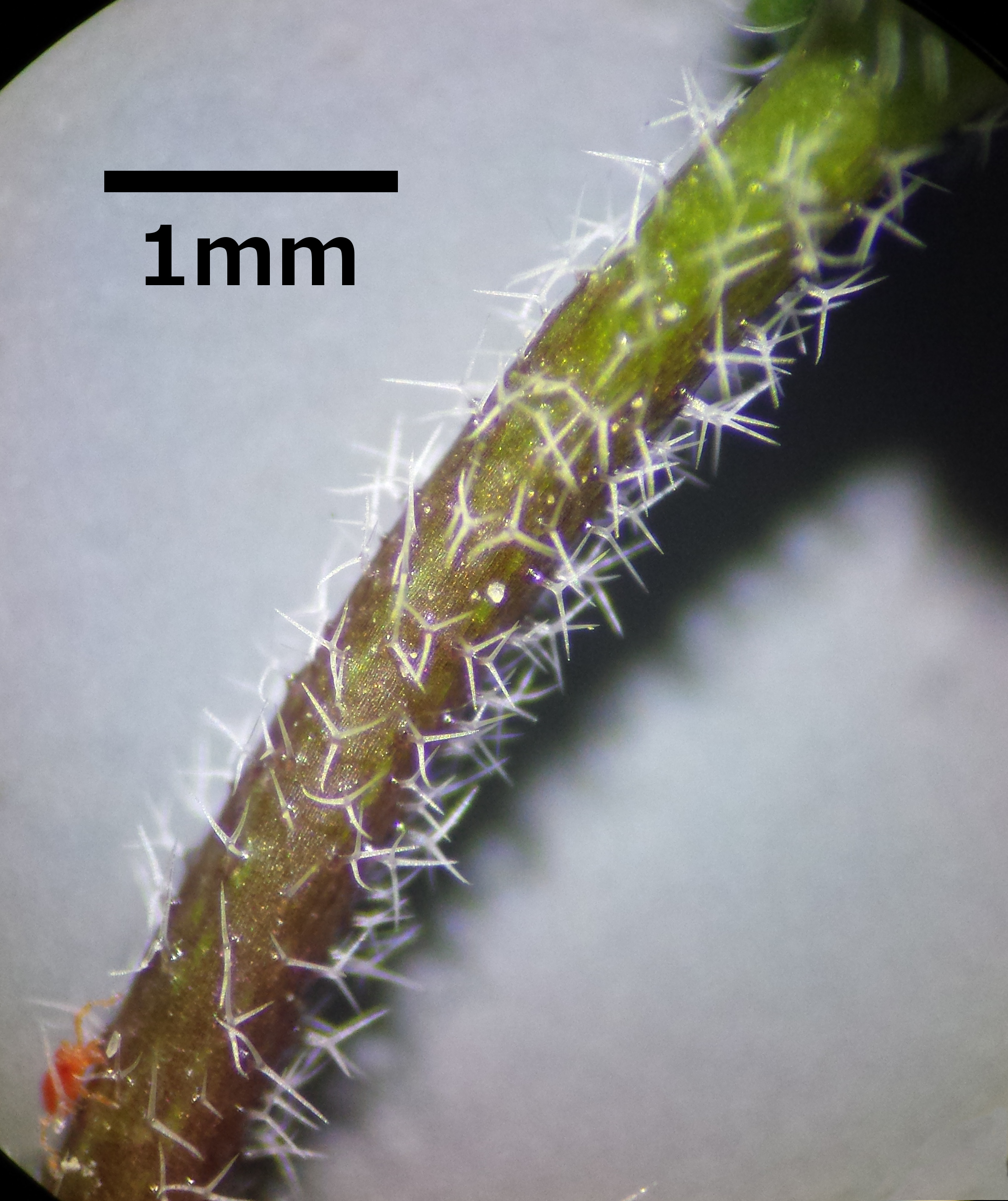 Stipe with stellar hairs Taxon: Draba verna s. lat. (sensu Fischer et al. EfÖLS 2008 ISBN 978-3-85474-187-9 incl. addendum in Neilreichia 6) Location: on bridge over A22 near Donaupark, Vienna-Donaustadt - ca. 160 m a.s.l. Habitat: ruderal area